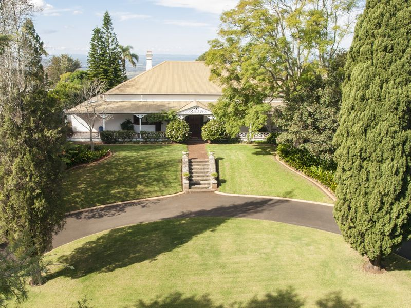 View of front of Fernside Homestead